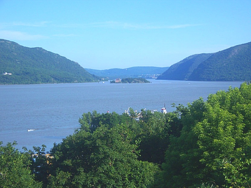 Photographed by Daniel Case on 2005-06-23 from Overlook Drive in Newburgh, NY, USA, looking south down the Hudson River at Breakneck Ridge and Storm King